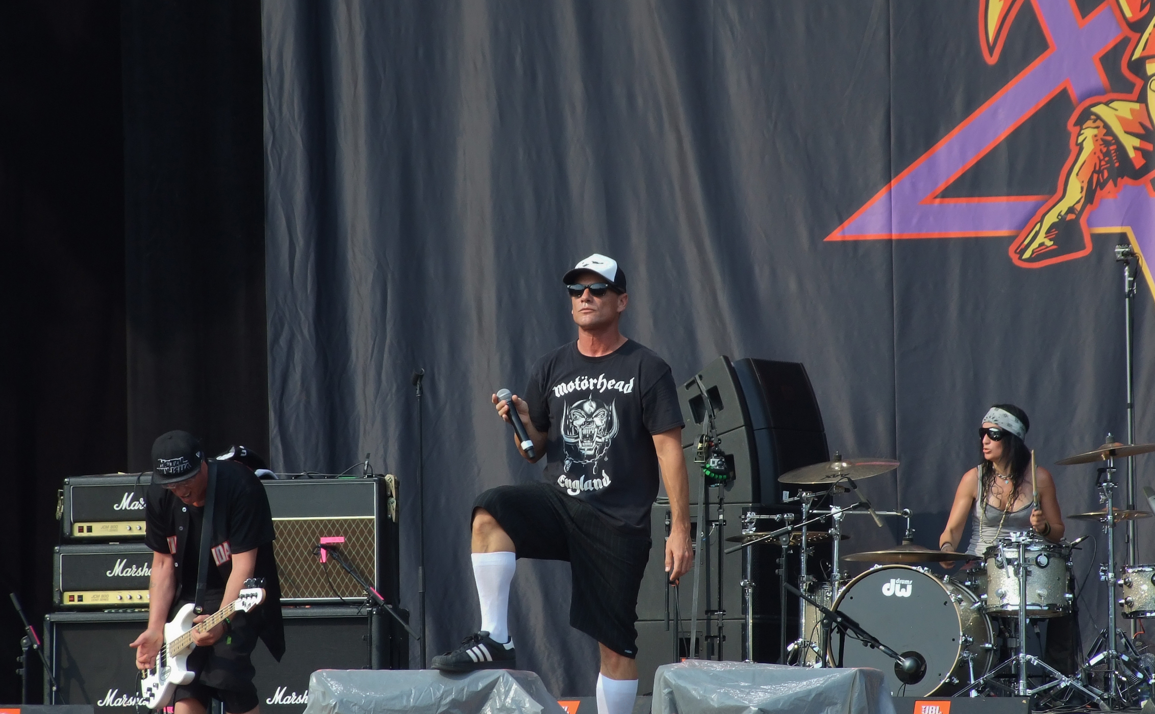 The American rock band Ugly Kid Joe performing at Sofia Rocks Fest 2012, Bulgaria.